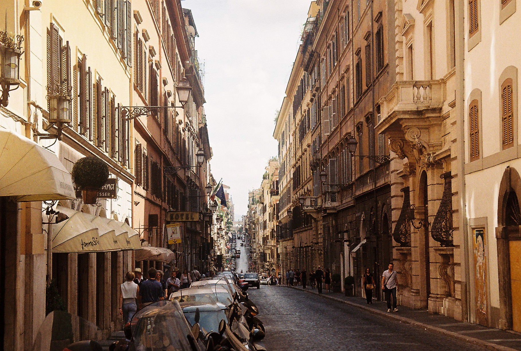 Via Sistina in Rome